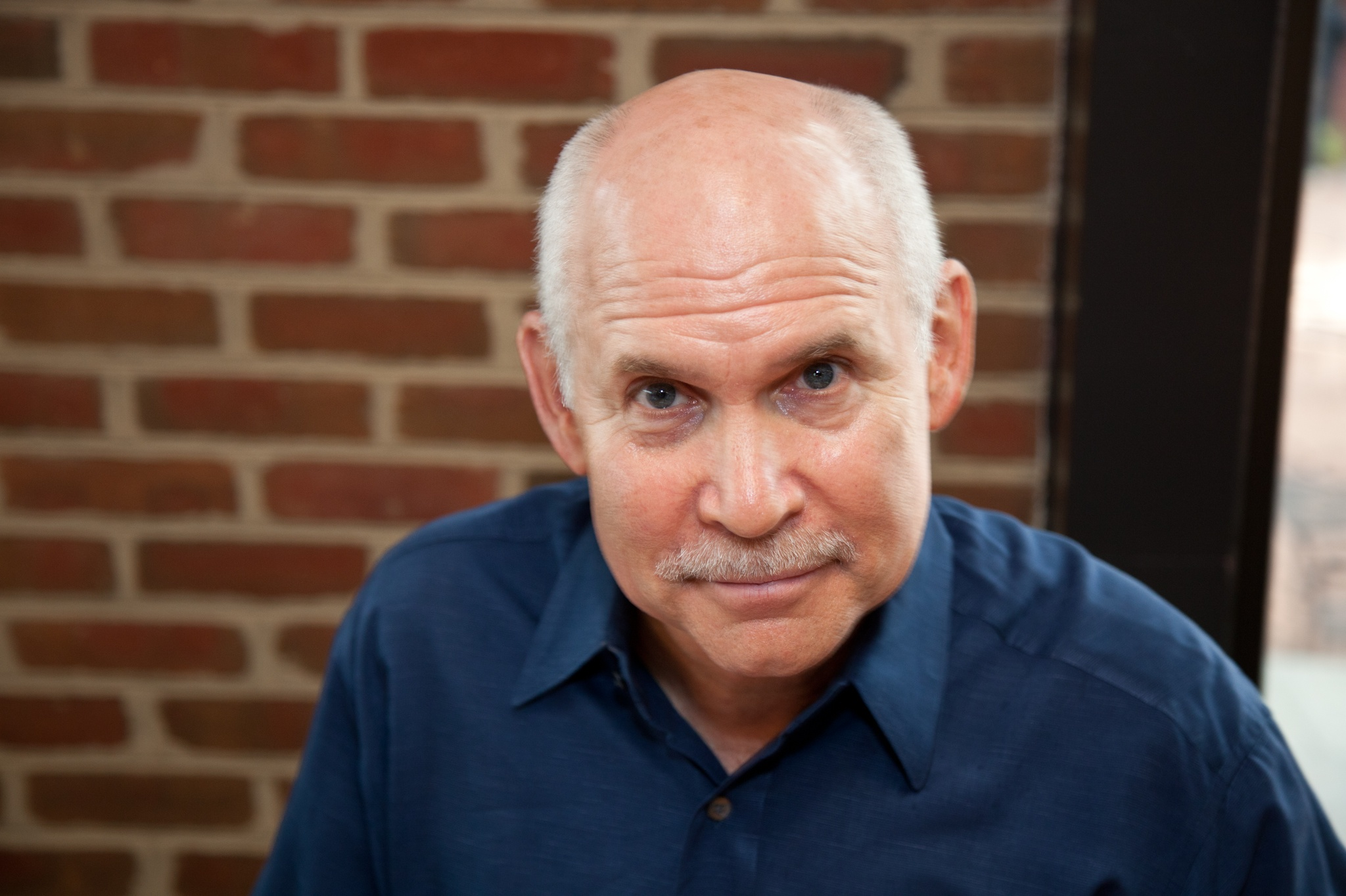 Photographer Steve McCurry